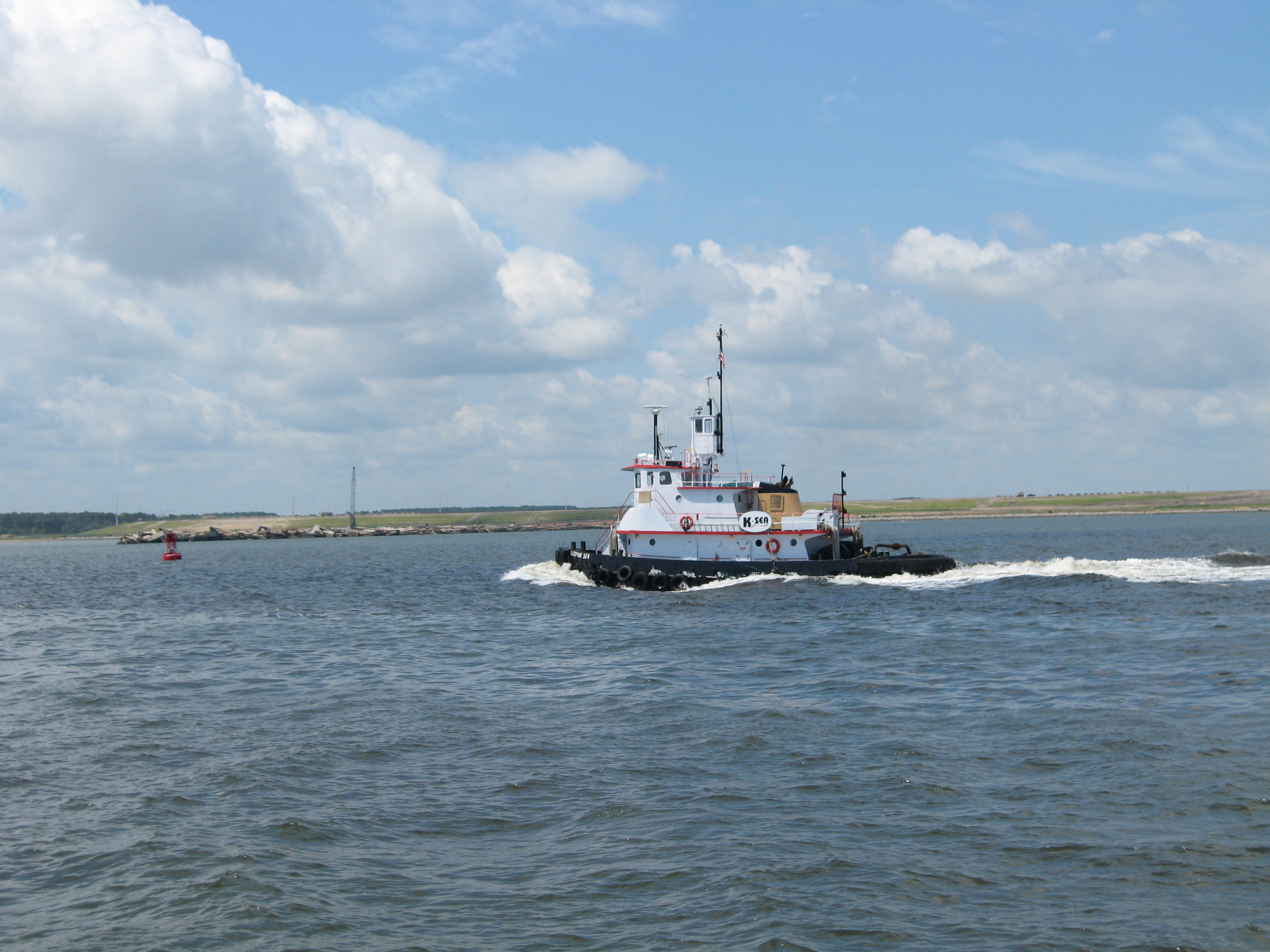 A tugboat at work in Norfolk, Virginia